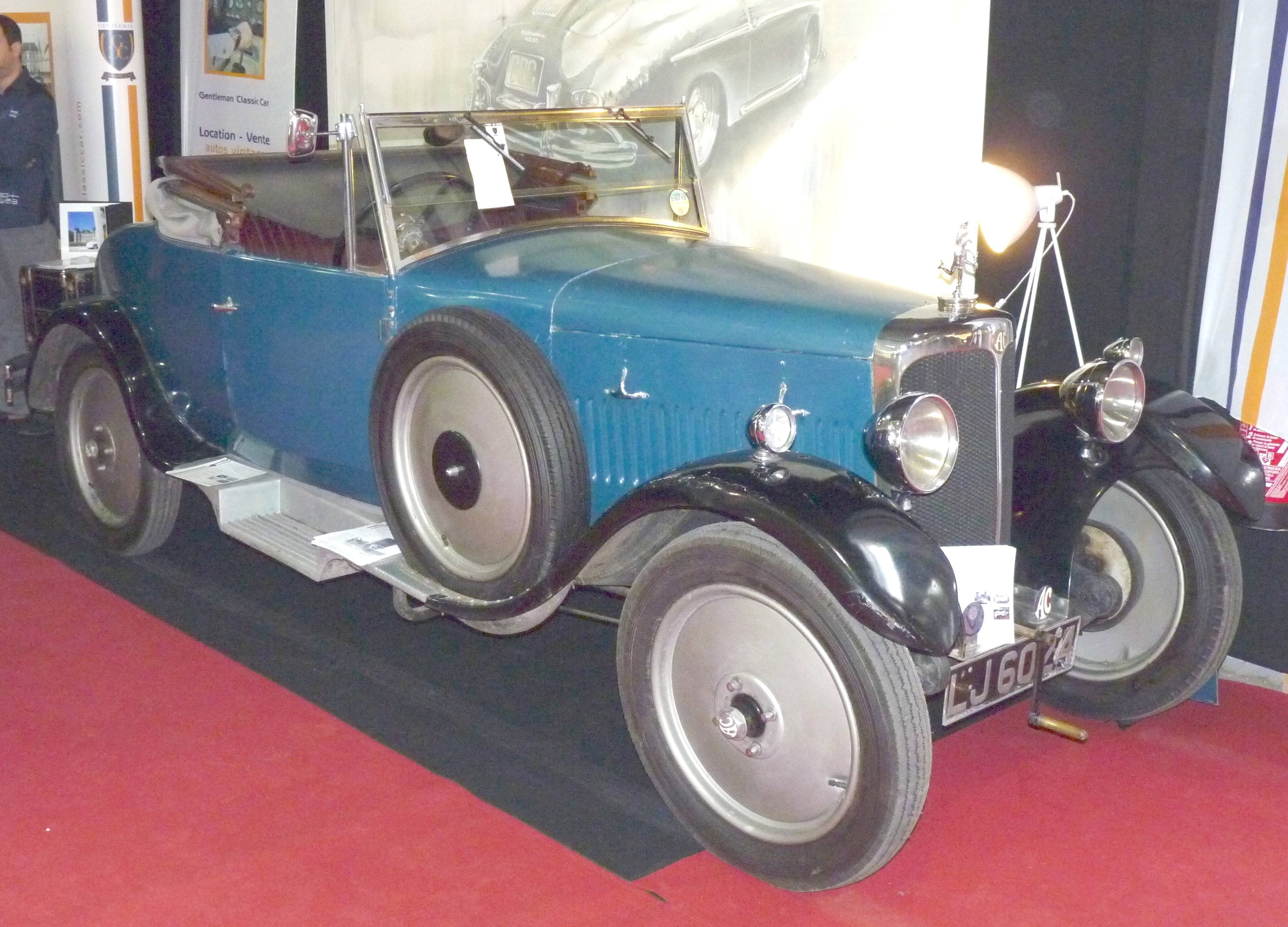 AC 12 HP Roadster 1926, shown at Retromobile-Exhibition, Paris, 2013. The front fenders have obviously been modified and show an arrowhead, where the standard-version of this type has fenders, which are covering the wheels further down.